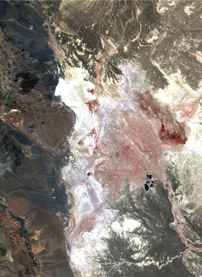 In 2001, Hamoun wetlands vanished as Central and South Asia were hitby the largest persistent drought anywhere in the world in period 1999-2001. The only sign of water in this scorched landscape of extensive salt flats (white) is the Chah Nimeh reservoir in the center right of the image, which is now only used for drinking water. Degraded reed stands in muddy soil are visible as dark red in the southern end of Hamoun-i Puzak. Landsat 7 ETM+ false colour composite created from a combination of the near-infrared, red and green bands (bands 4, 3, and 2) useful for monitoring water and vegetation.